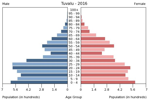 The population pyramid of Tuvalu illustrates the age and sex structure of population and may provide insights about political and social stability, as well as economic development. The population is distributed along the horizontal axis, with males shown on the left and females on the right. The male and female populations are broken down into 5-year age groups represented as horizontal bars along the vertical axis, with the youngest age groups at the bottom and the oldest at the top. The shape of the population pyramid gradually evolves over time based on fertility, mortality, and international migration trends.